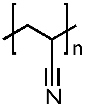 The chemical structure of the polyacrylonitrile repeat unit.